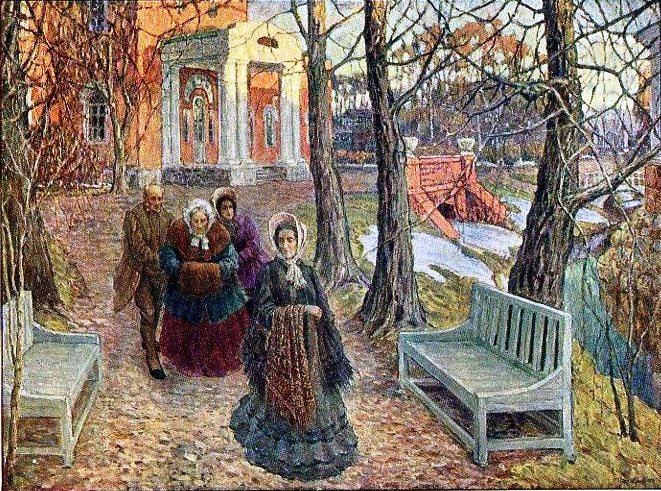 Demiyanov_Mikhail_Old_years